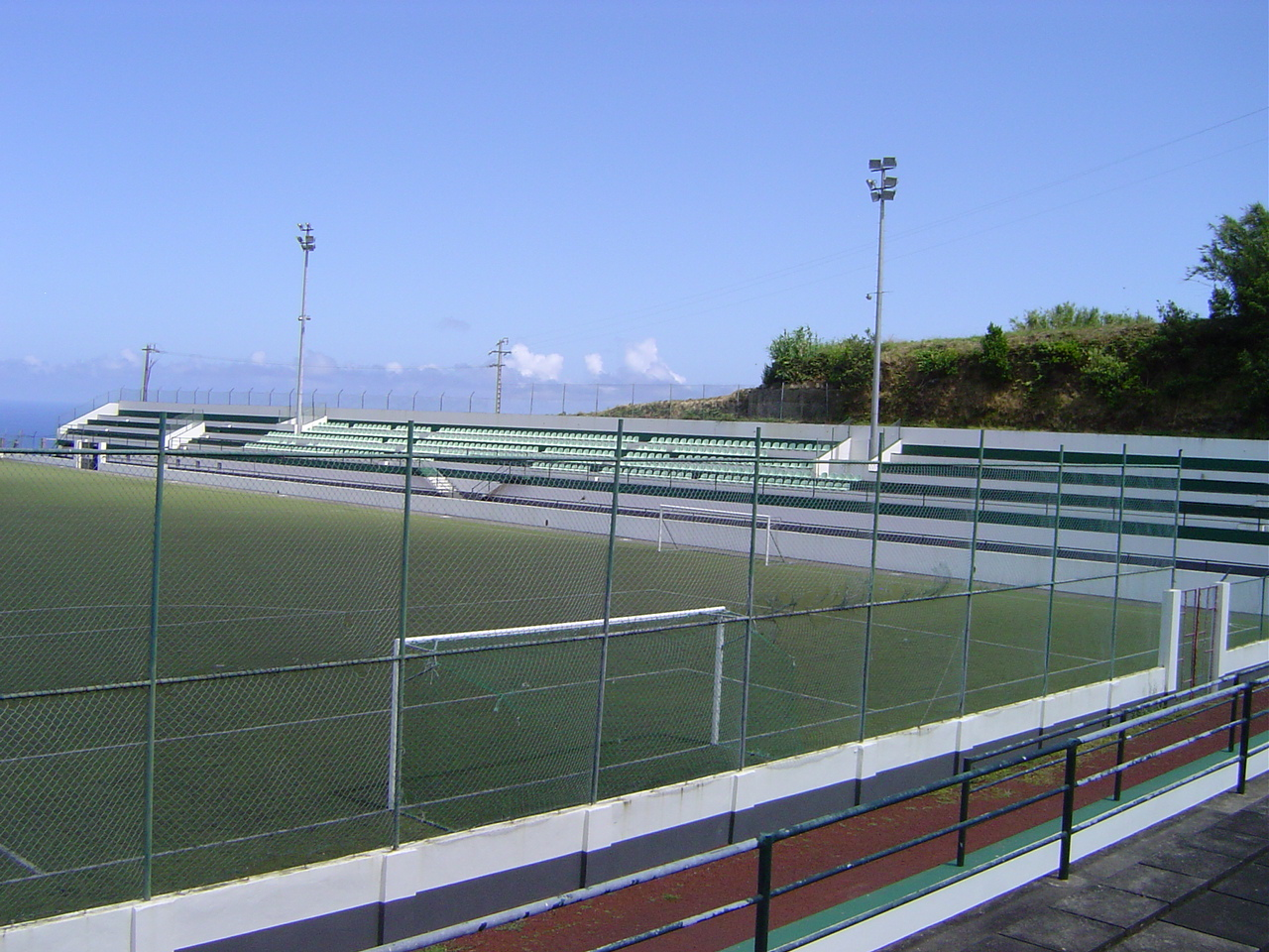 UD Nordeste stadium - southern view. União Desportiva do Nordeste is a Portuguese football club based in Nordeste on the island of São Miguel in the Azores.